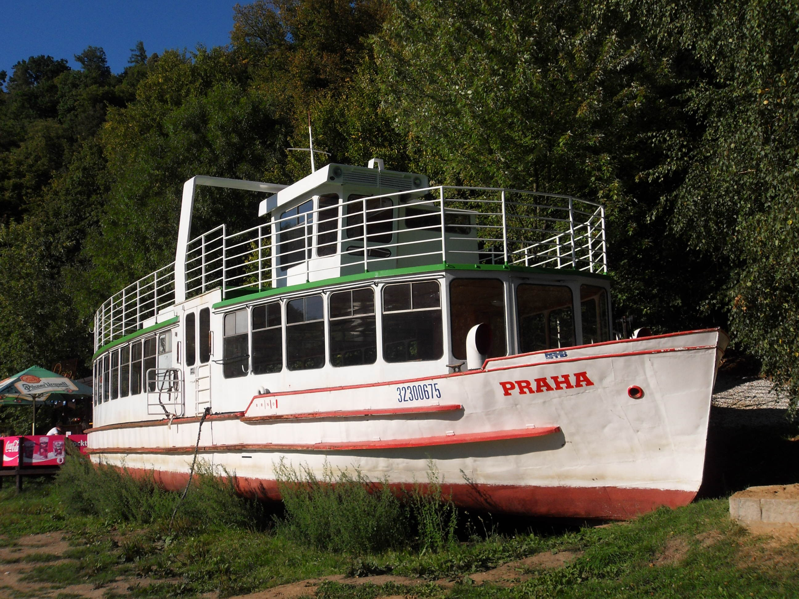 Praha ship in Camp Bítov, Znojmo district, Czech Republic